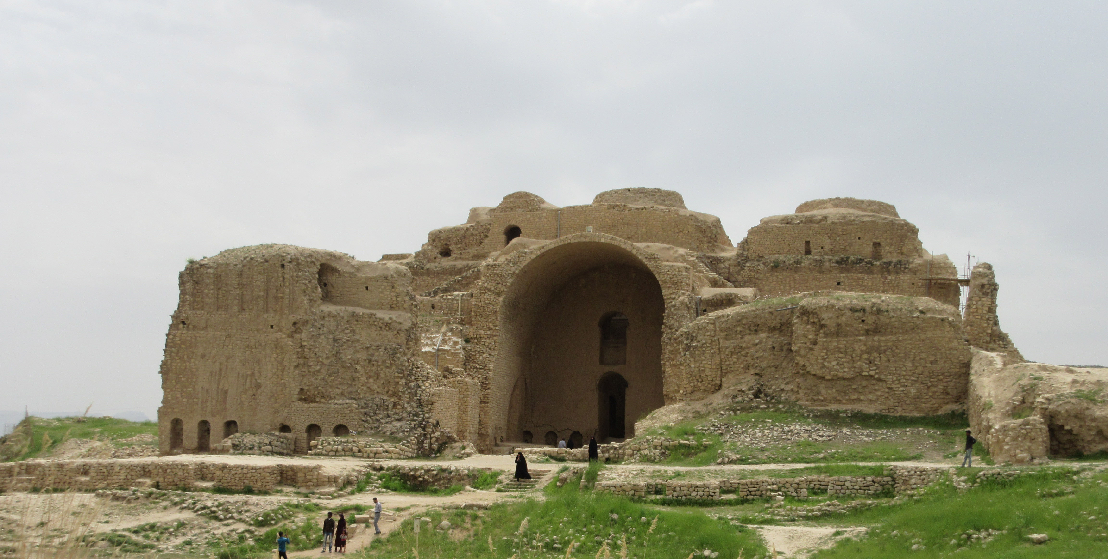 Palace of Ardashir, 30 March 2015.